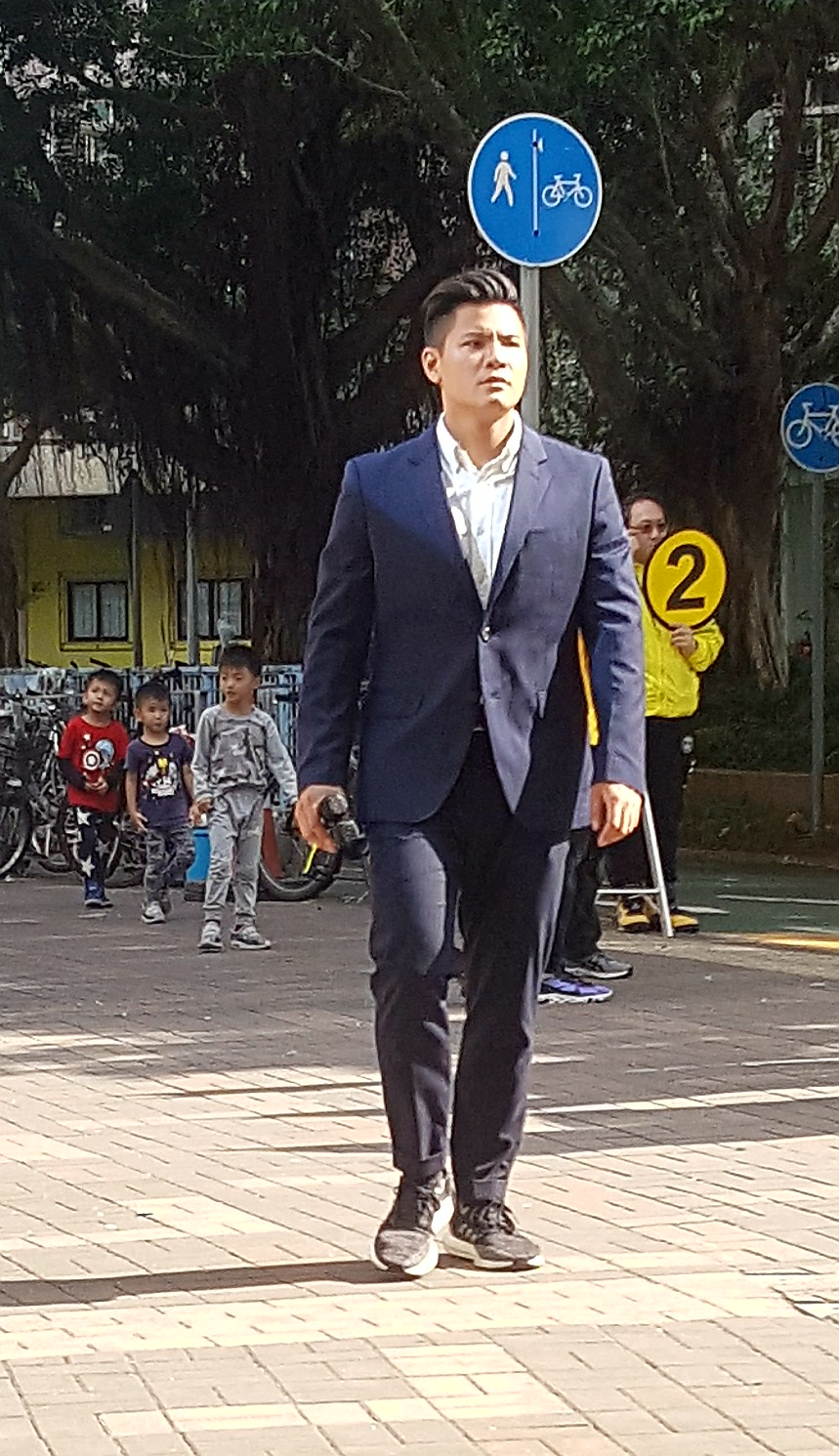 2019 Hong Kong District Council Election' Candidate